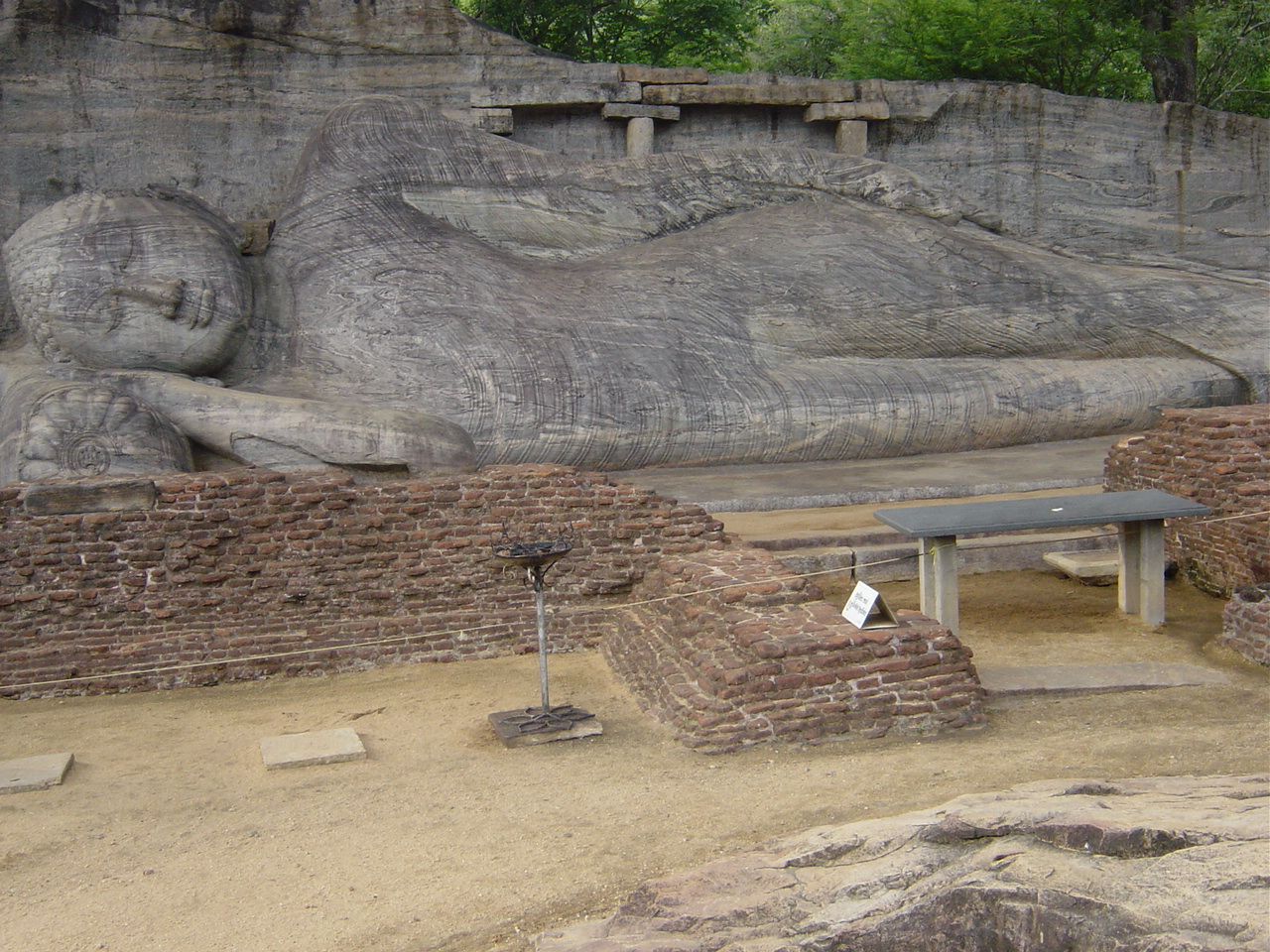 Gal Vihariya - 3: The Recumbent statue of the Buddha. The Gal Vihariya in Polanaruwa had all three postures of the Buddha carved out of a single rock. A World Heritage site.